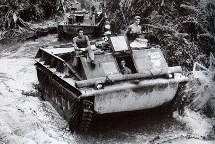 LVT-1. In the Northern Solomons the 3rd Marine Division made great use of 3rd Amtrac Battalion in the Swampy terrain.